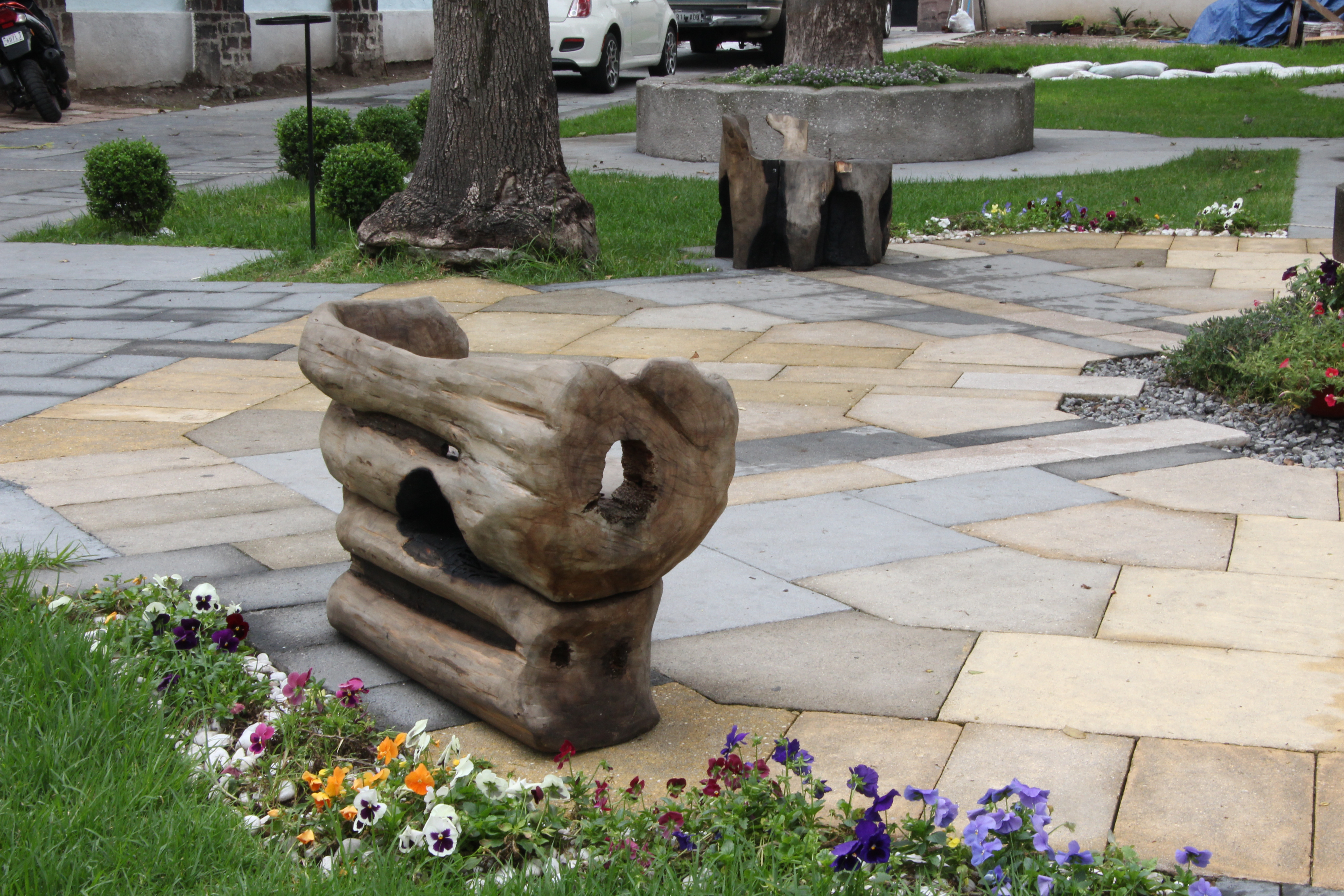 Wooden bench surrounded by flowers in the center garden at Parroquia de Santa María de la Natividad, Mexico City.